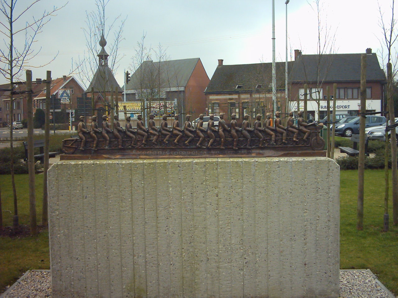 Picture taken on 18 February 2007 by Peter Van Osta (myself) of the World Record of the longest bicycle statue of the Pedaalstomper in Westmalle (Malle), Belgium